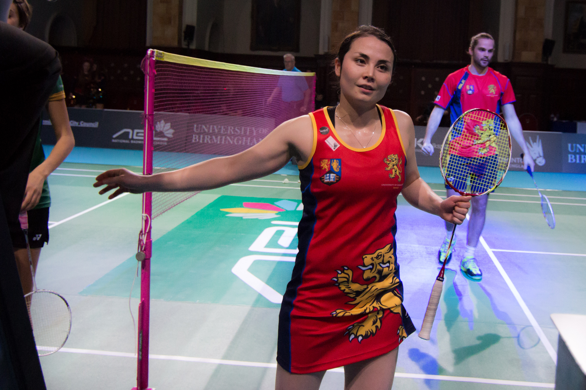 NBL Badminton player Alyssa Lim during a match in the Great Hall, University of Birmingham